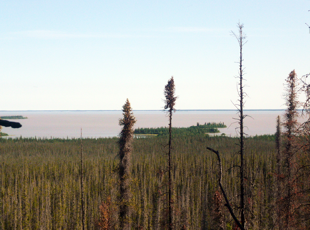 Great Slave Lake, Northern Bay, NWT, Canada